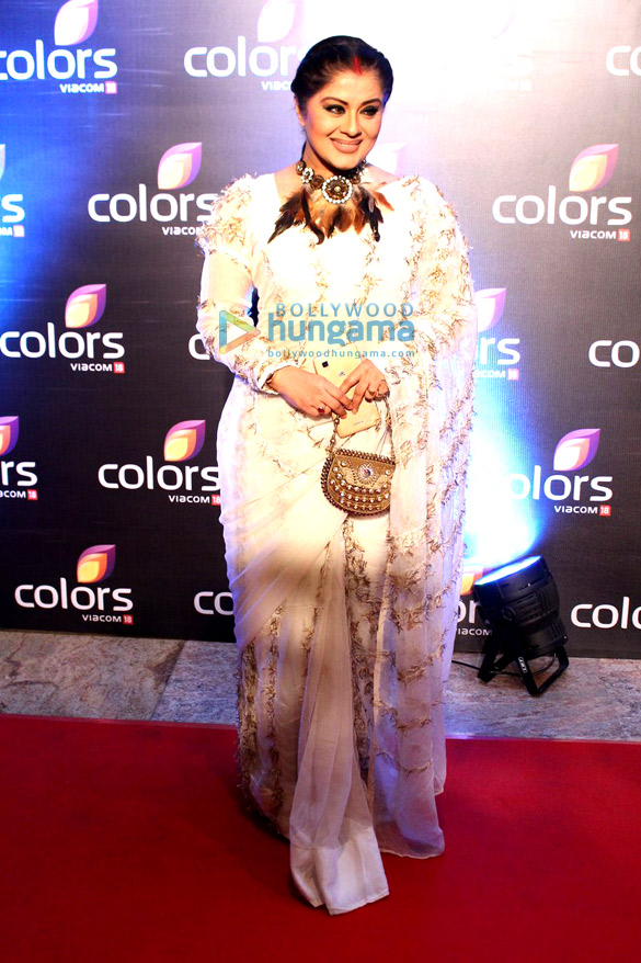 Sudha Chandran grace Colors’ annual bash